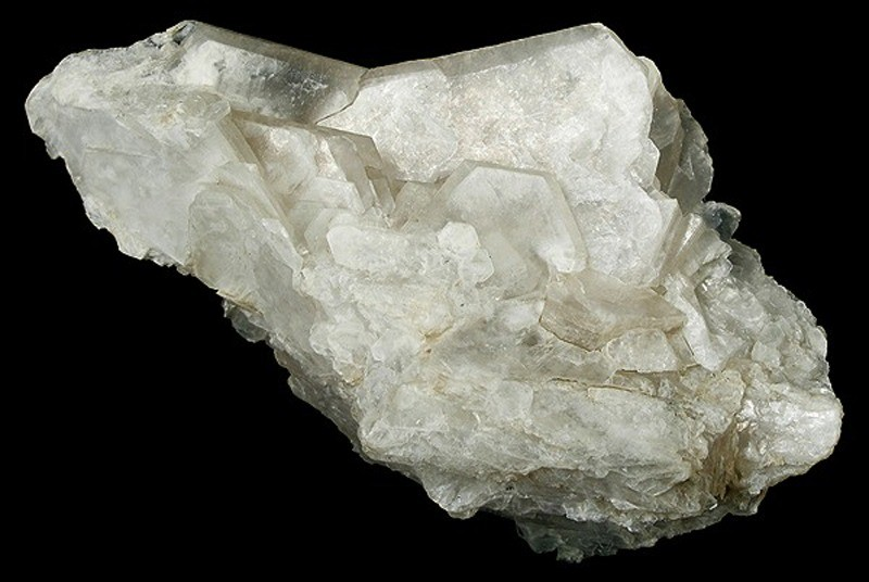 Brucite Locality: Wood's Chrome Mine (Wood's Mine), Texas, Little Britain Township, Lancaster County, Pennsylvania, USA (Locality at ) Size: 11.3 x 6.8 x 3.6 cm. Very sharp, textbook-quality crystals of this rarely crystallized species, from the classic locality in the US. This was not the first locality, but it has remained the best in the USA for sharp crystals and they are quite different in habit from the fine brucite found at a very few other locales (Kazakhstan, and South Africa) today. This piece has large, well-displayed crystals to 4 cm across, and is thus fairly significant.